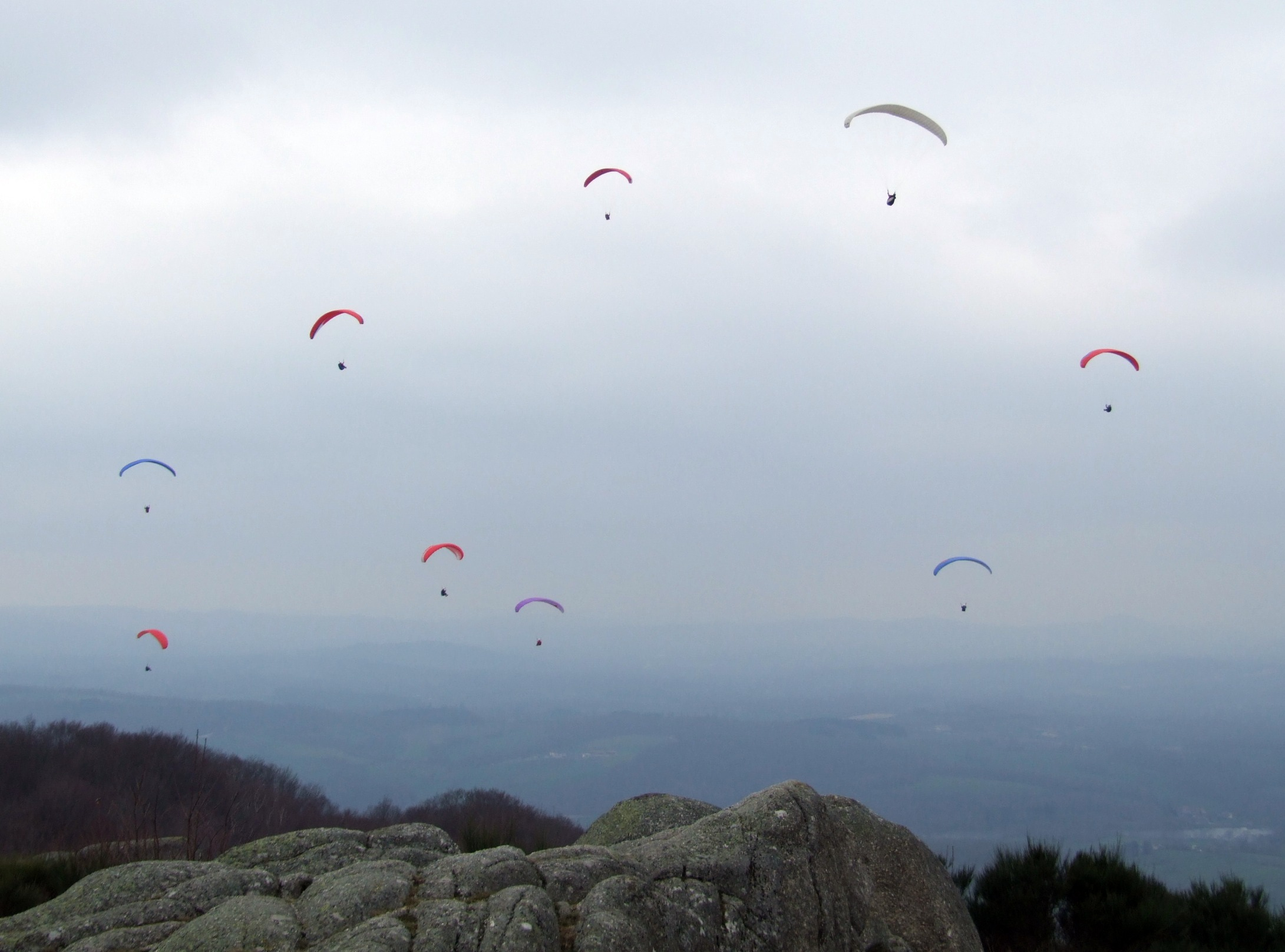 Uchon, Burgundy, FRANCE